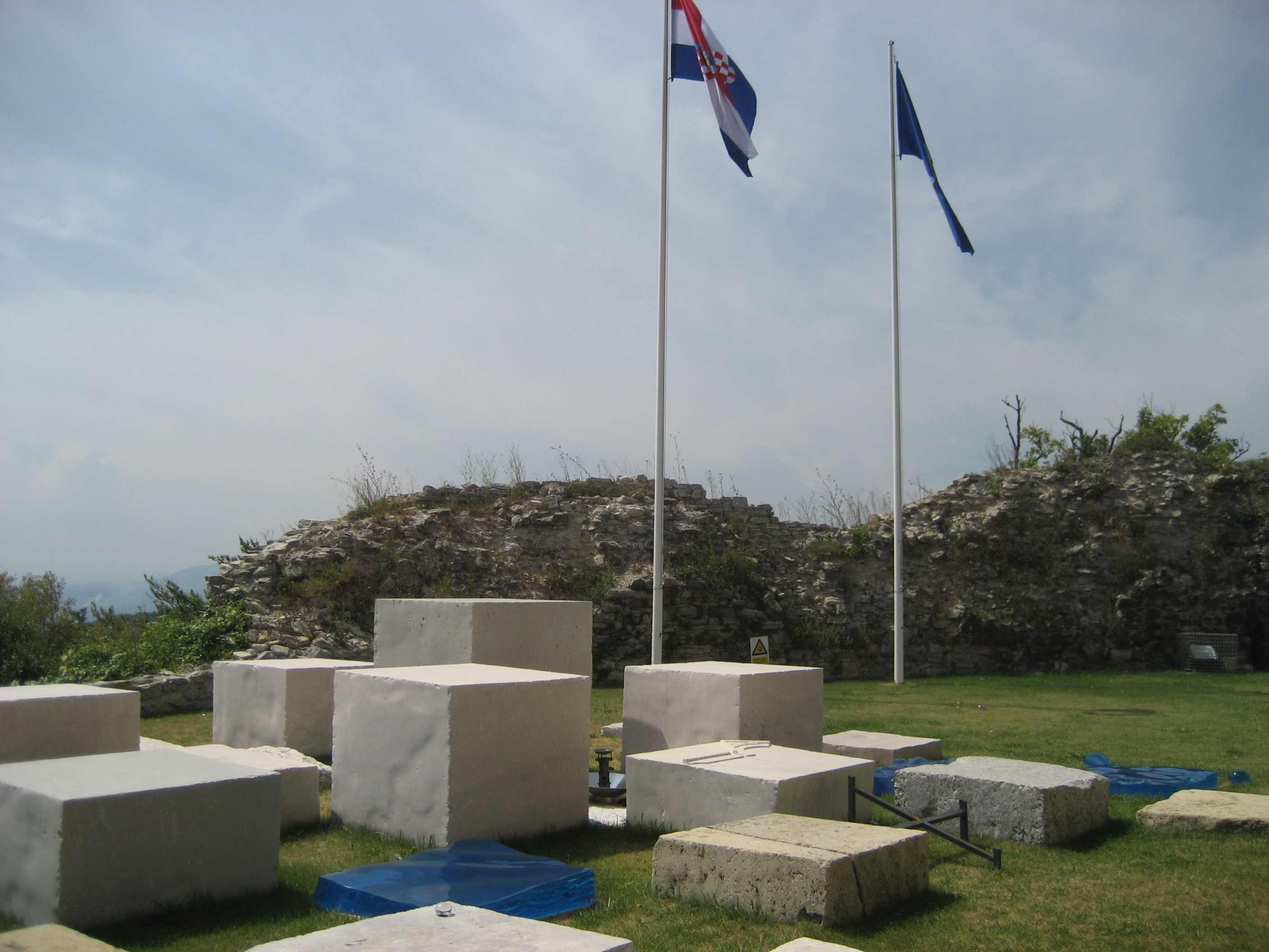 Memorial above Zagreb on the Medvednica Mountain